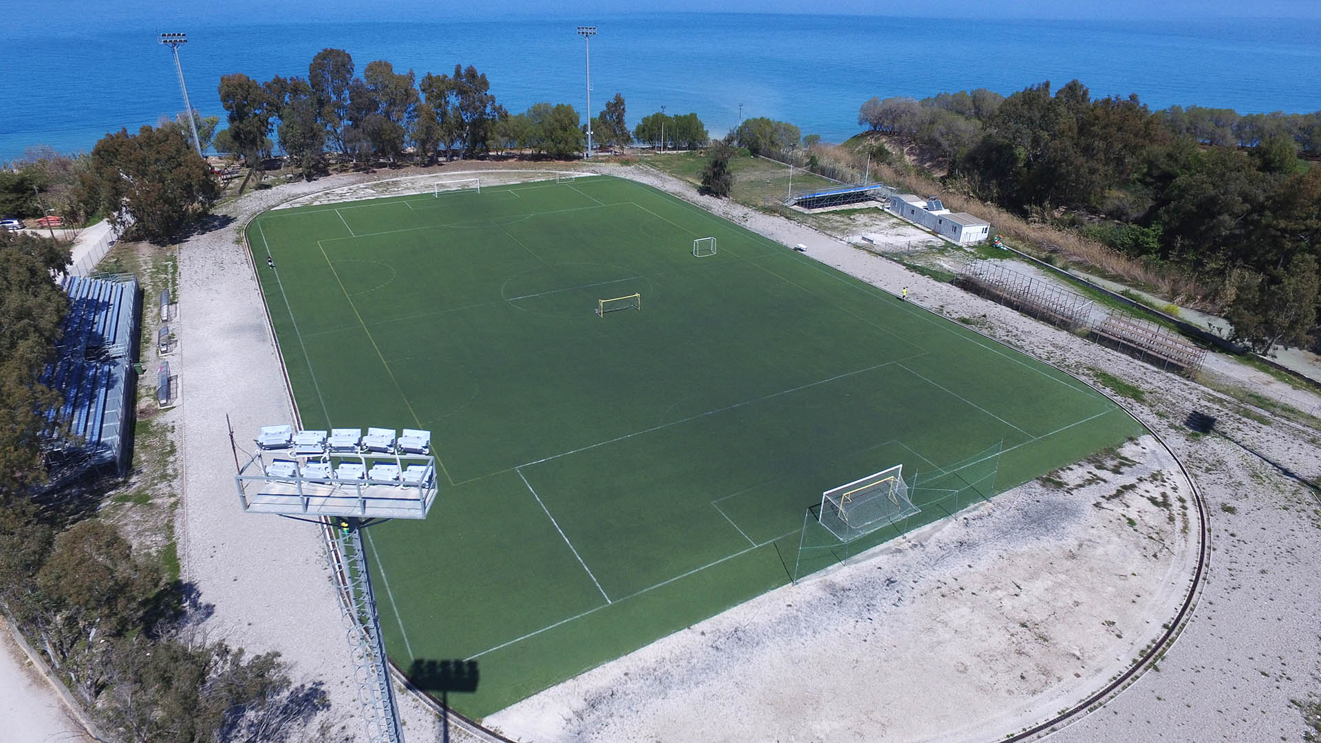 Aerial photo of the Municipal Stadium of Aigera, Achaea Greece.